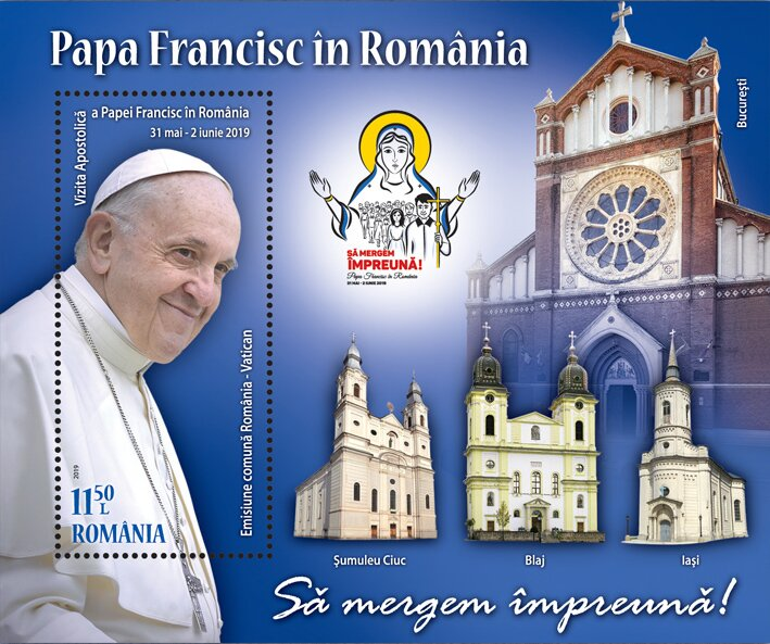 Visit of Pope Francis to Romania